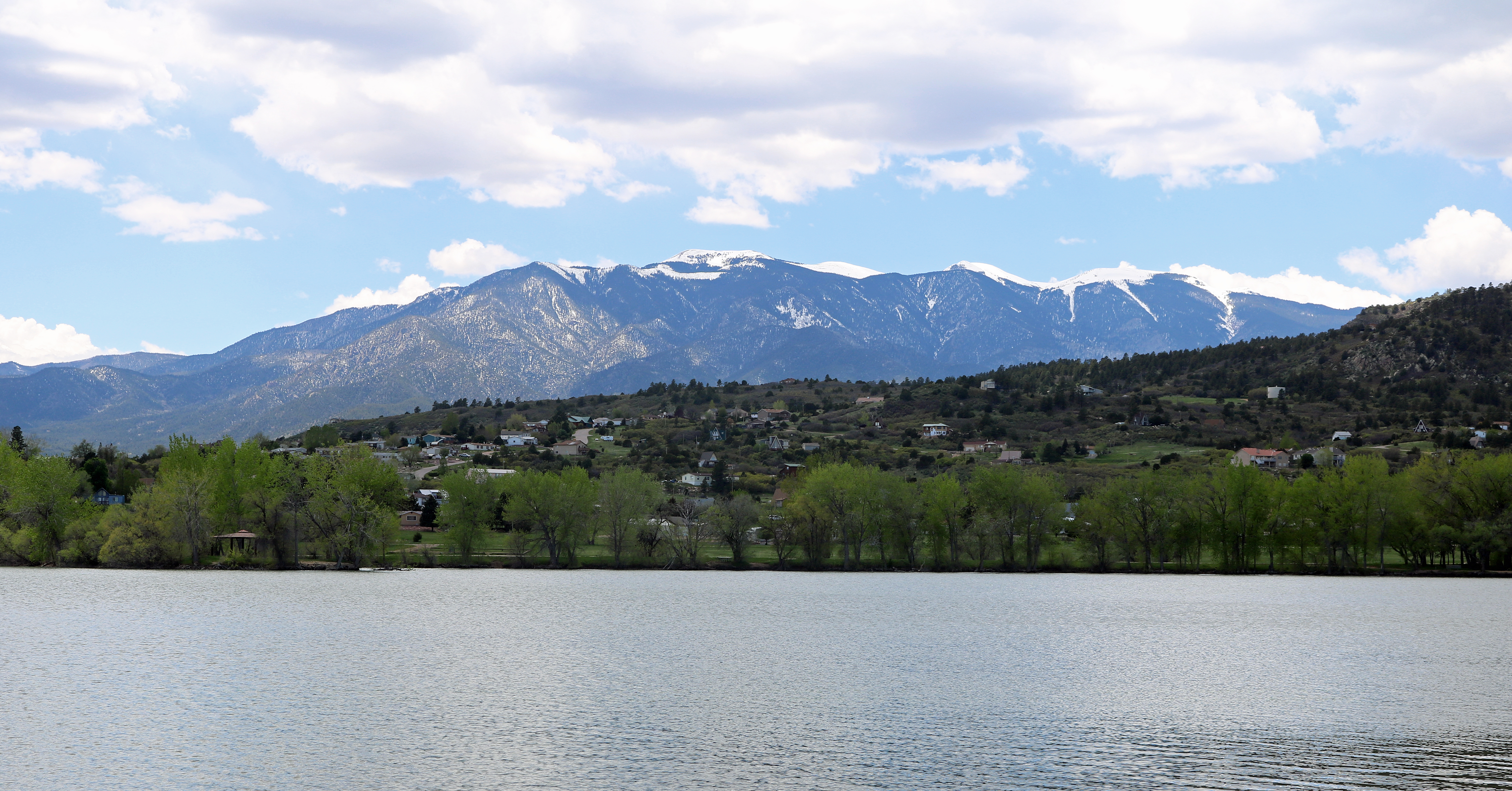 A view of Lake Beckwith (a reservoir) and Greenhorn Mountain in the Greenhorn Valley in Pueblo County, Colorado.